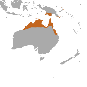 Agile Wallaby (Macropus agilis) range, with national borders added